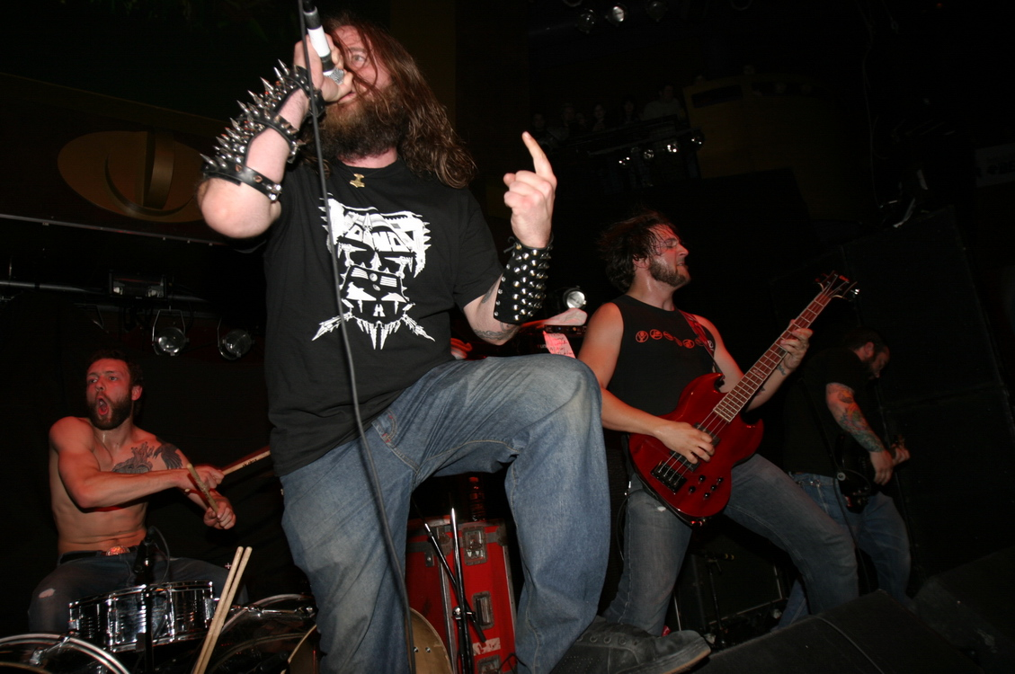 3 Inches of Blood Live at Reds, Edmonton